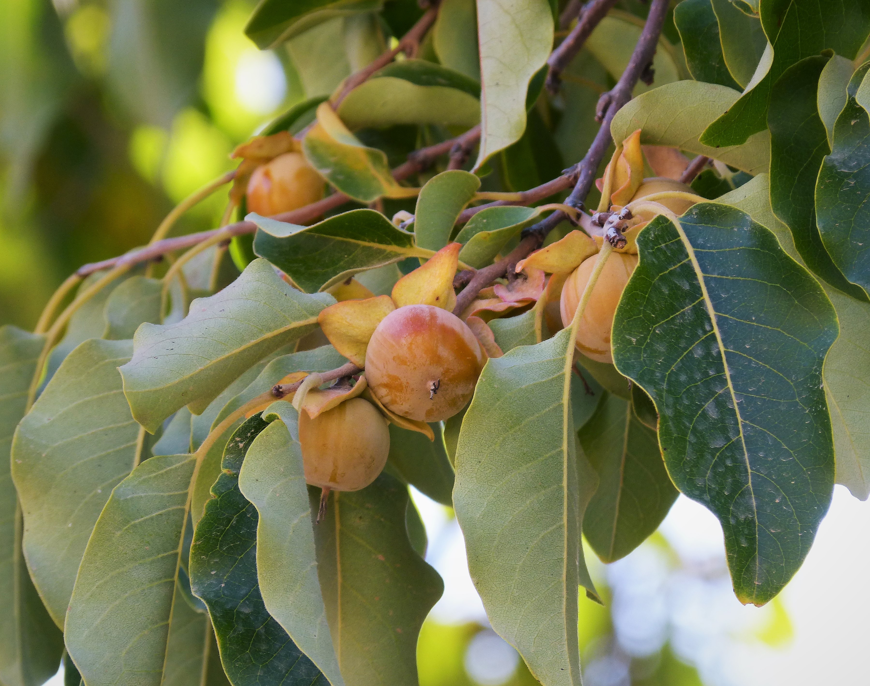 Alcornocales National Park, Cadiz Province, Andalucia Spain